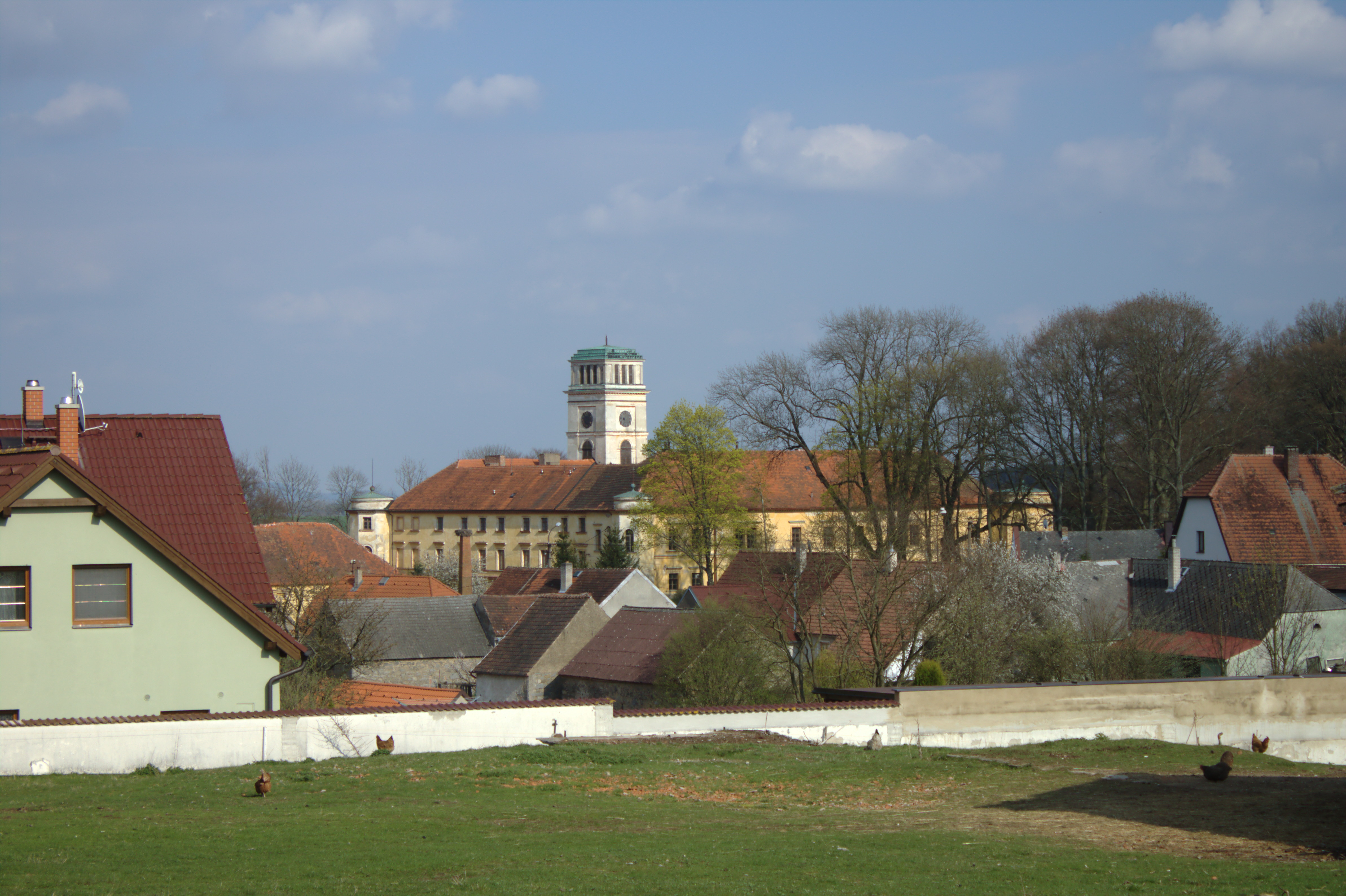 View of the town of Nalžovské Hory with local castle, Plzeň Region, CZ